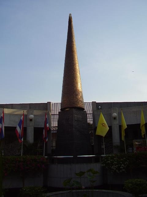 14 October 1973 Memorial, Ratchadamnern road, Bangkok, Thailand